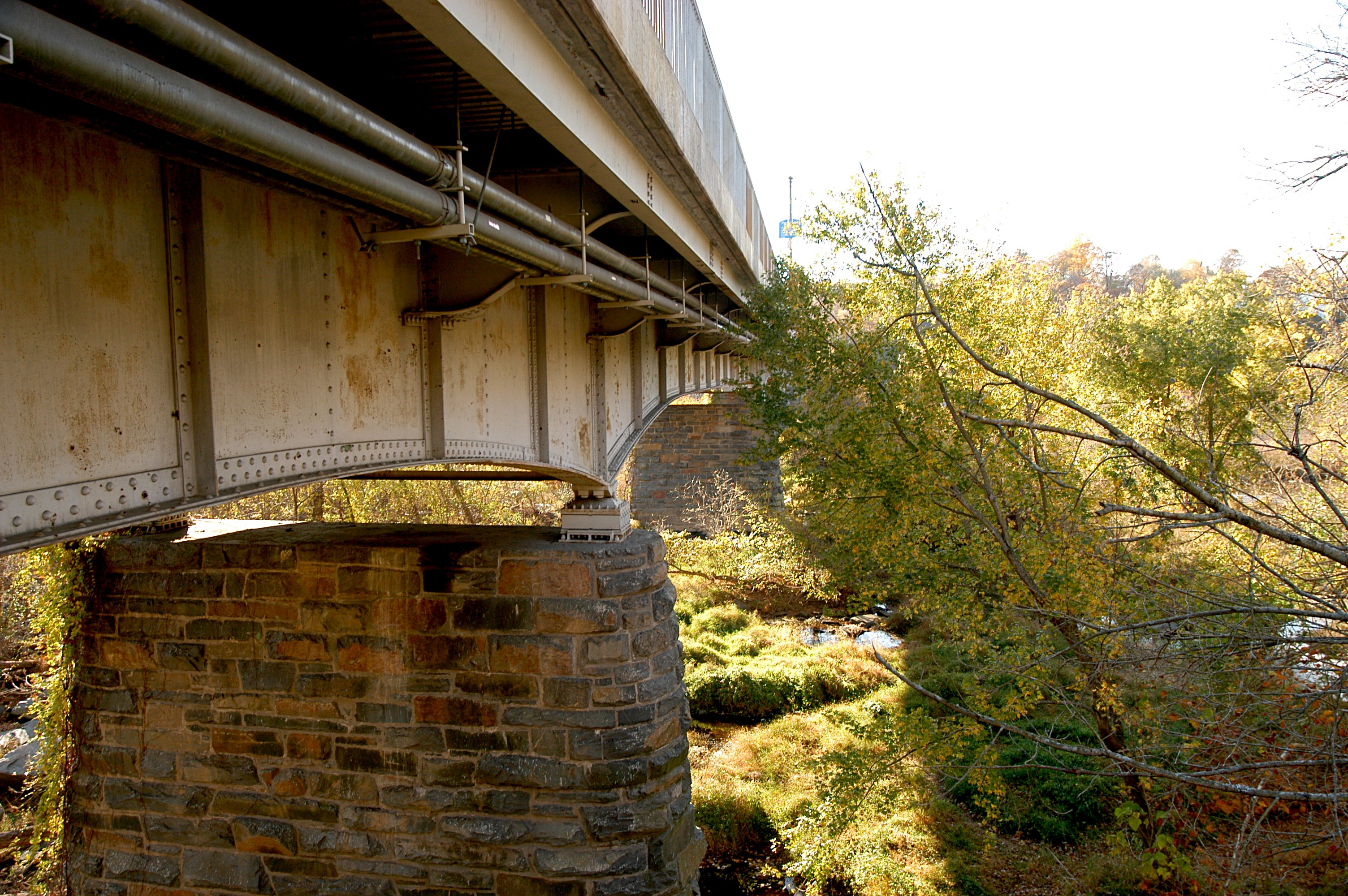 Underside of the Chain Bridge in Washington, DC.